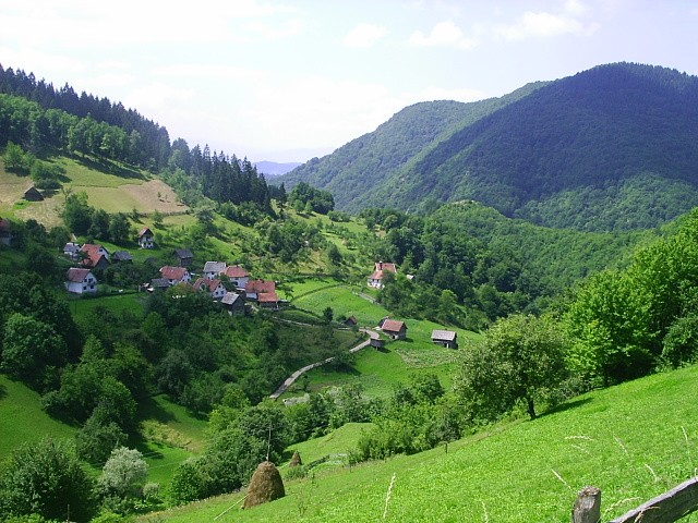 The village of Mijakovići near Vareš, Bosnia and Herzegovina